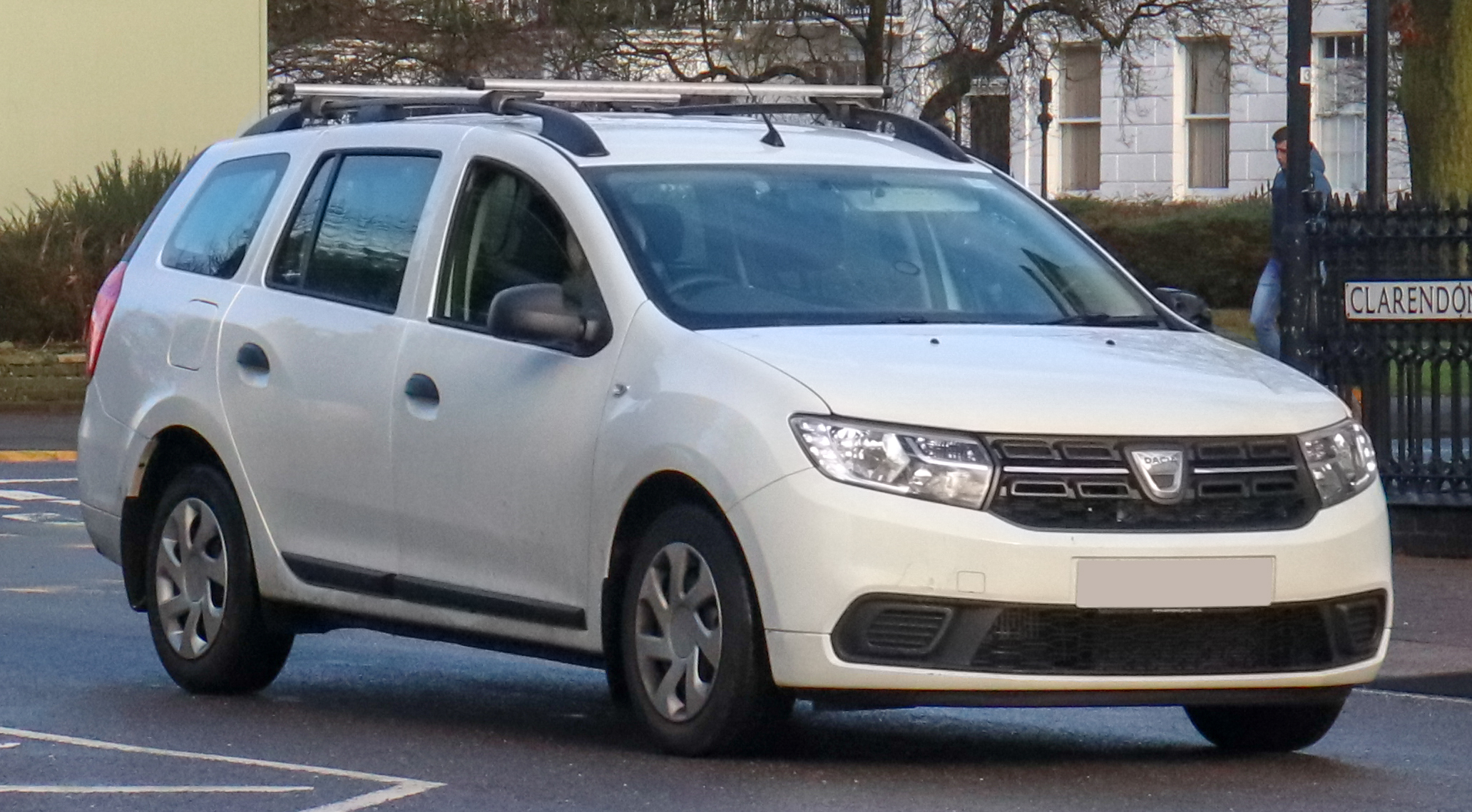 2018 Dacia Logan MCV Essential TCE 900cc Taken in Leamington Spa